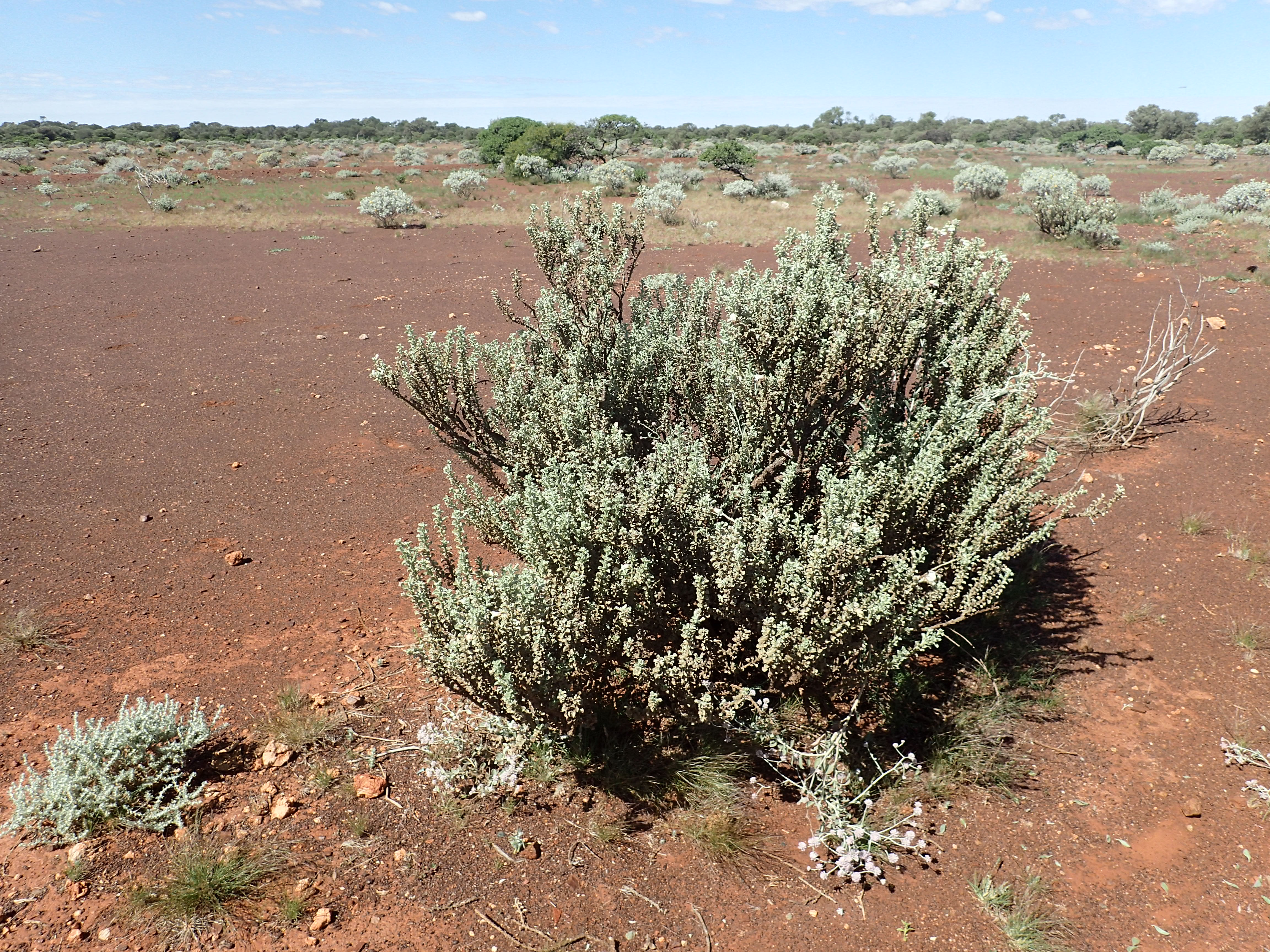 Eremophila rigida growing 43km south of the Capricornia Roadhouse